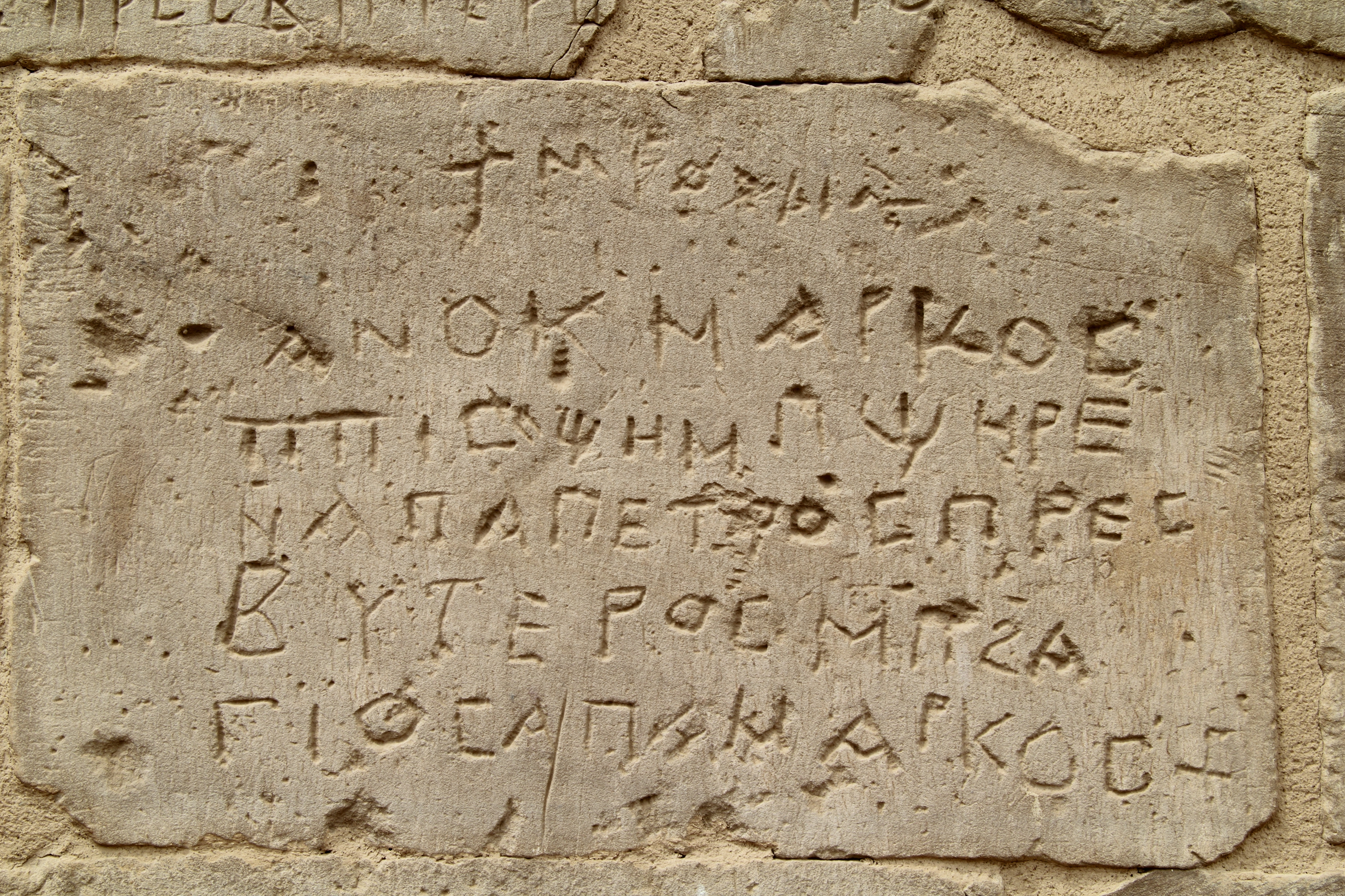 Ancient artisans’ village Deir el-Medina close to Luxor in Upper Egypt, Coptic graffito at the Ptolemaic Hathor temple: „[...] I am Markos [...], the son of Apa Petros, the priest of the saint Apa Markos.“